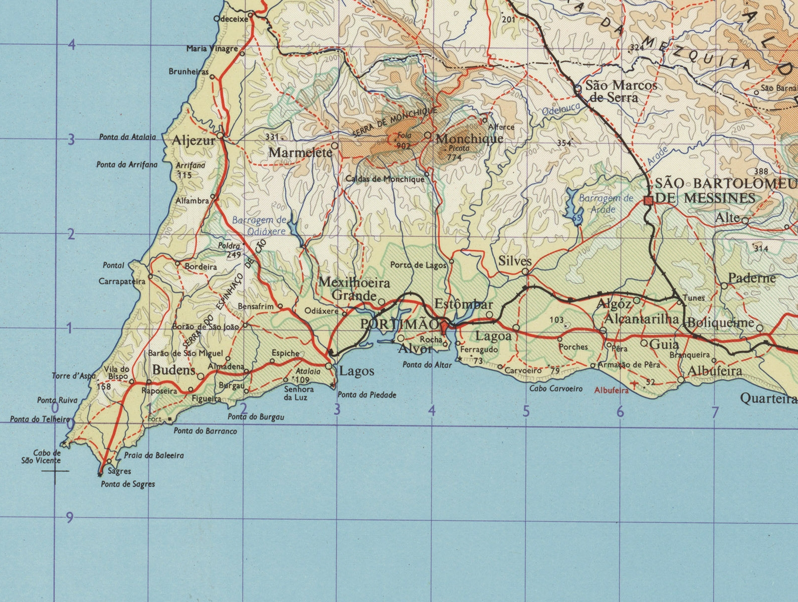 Map of the Barlavento, western half of the portuguese region of Algarve, based on a briitish military chart of 1965.